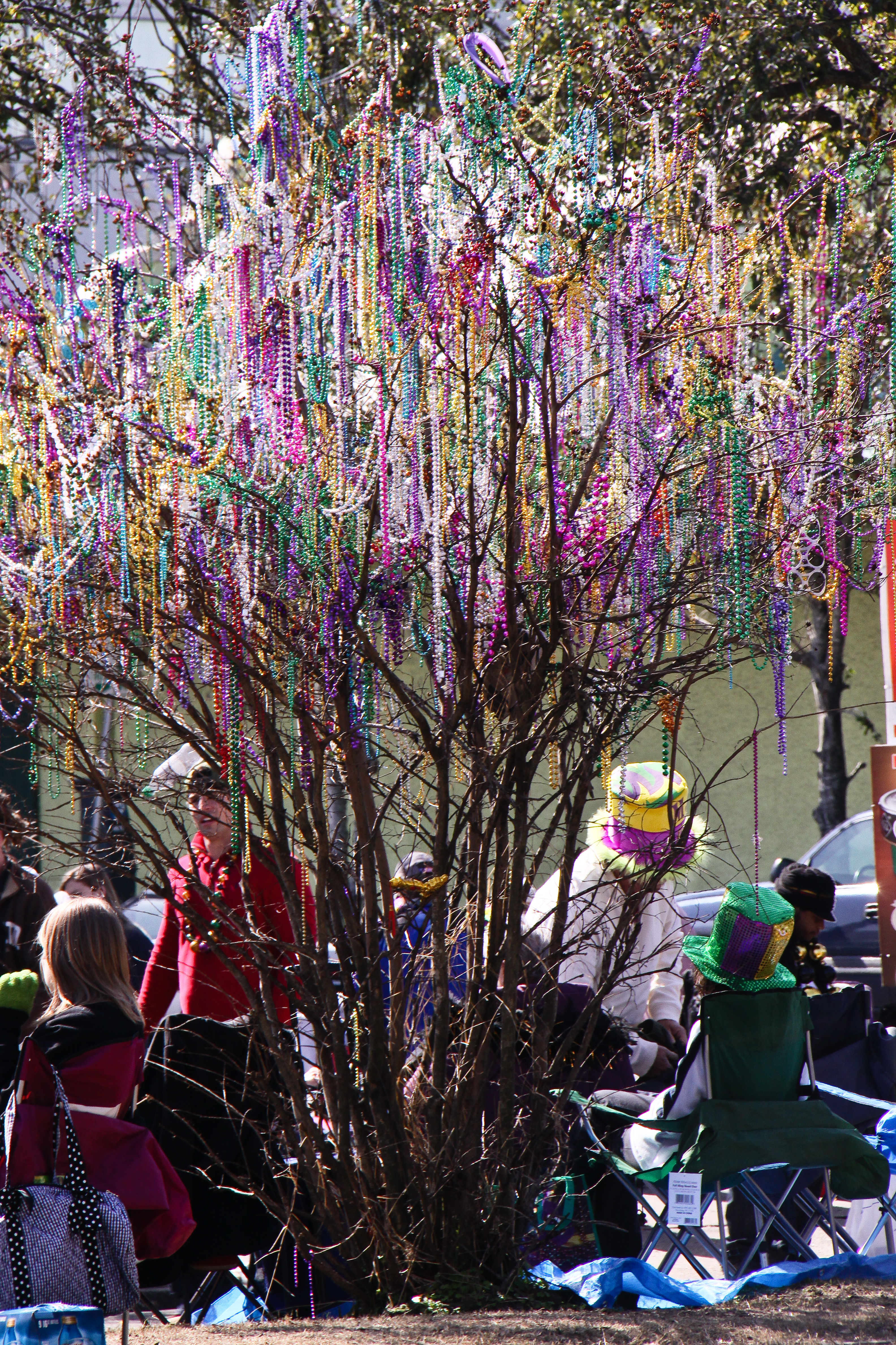 Mardi Gras bead tree, North Shore Louisiana. Some say that all the Mardi Gras beads in everyone's attic is the real reason New Orleans is sinking.